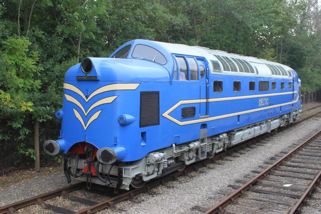 During its loan to the Ribble Steam Railway, the prototype 'Deltic' diesel locomotive was generally on display in their museum but here it has been brought outside as part of a diesel gala weekend and parked in the siding opposite the Riverside platform.